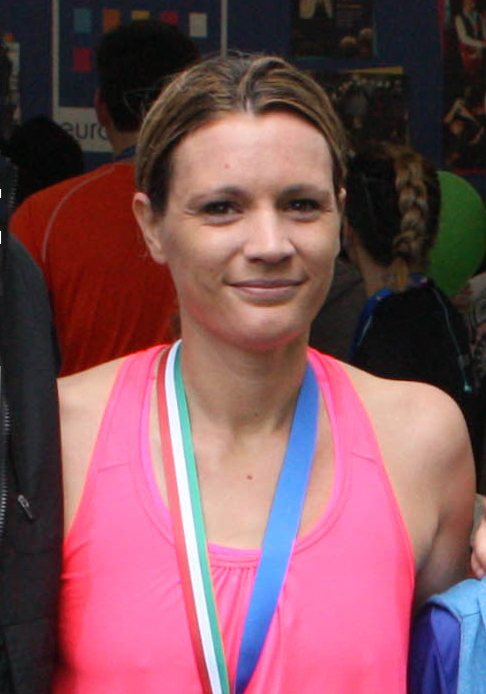 Kovács Ágnes Európa Nap Utcafesztivál Budapest 2014.05.11.